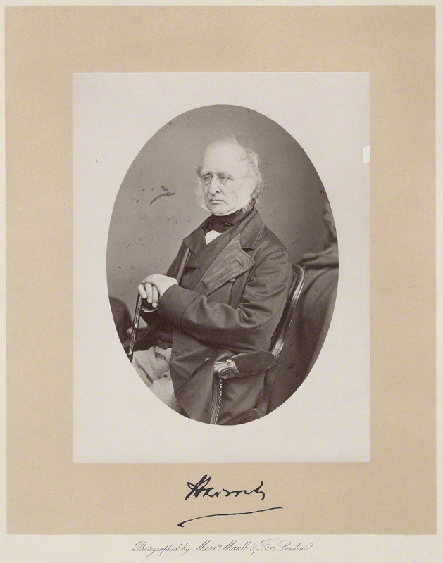 Portait of Dudley Ryder, 2nd Earl of Harrowby